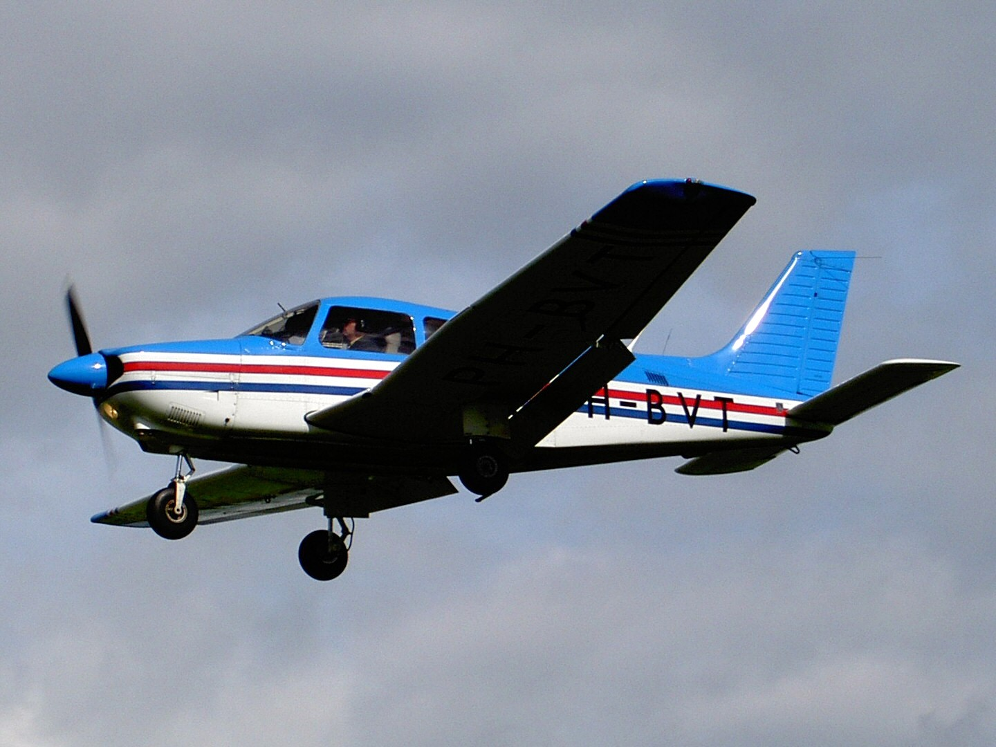 PH-BVT Piper PA-28-181. Landing at Lelystad airport.